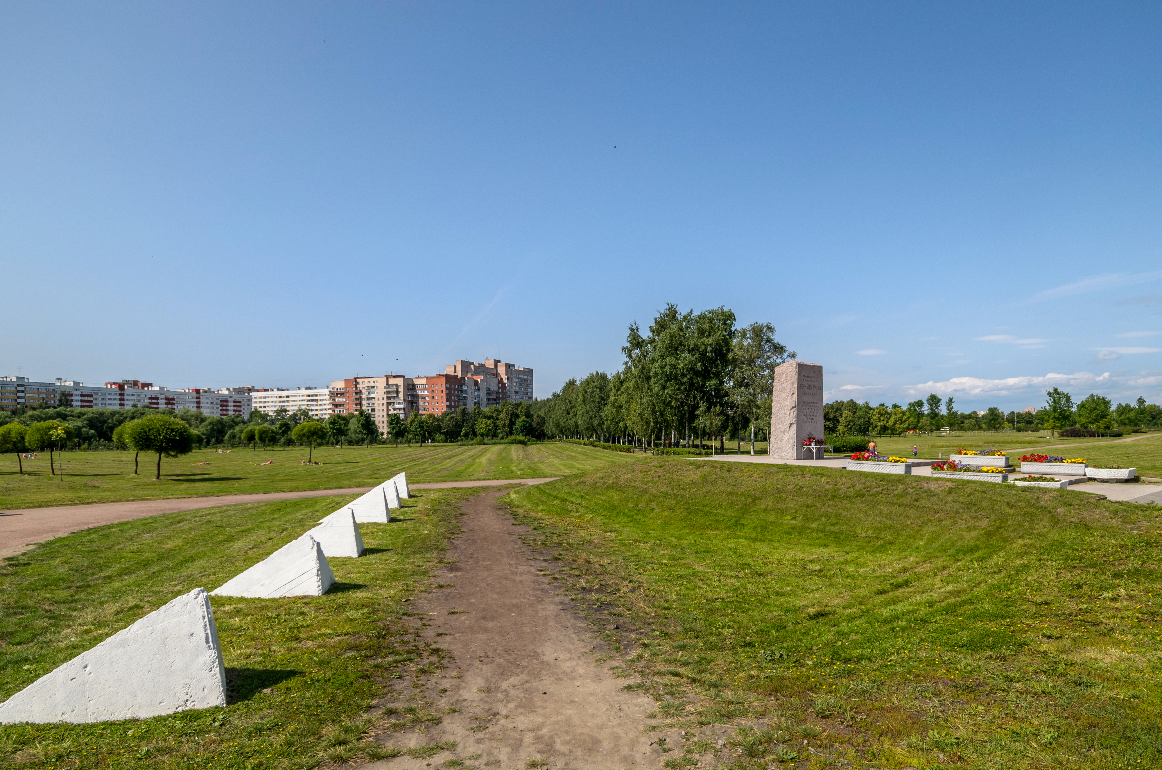 The Front Line of Defense Memorial in Saint Petersburg